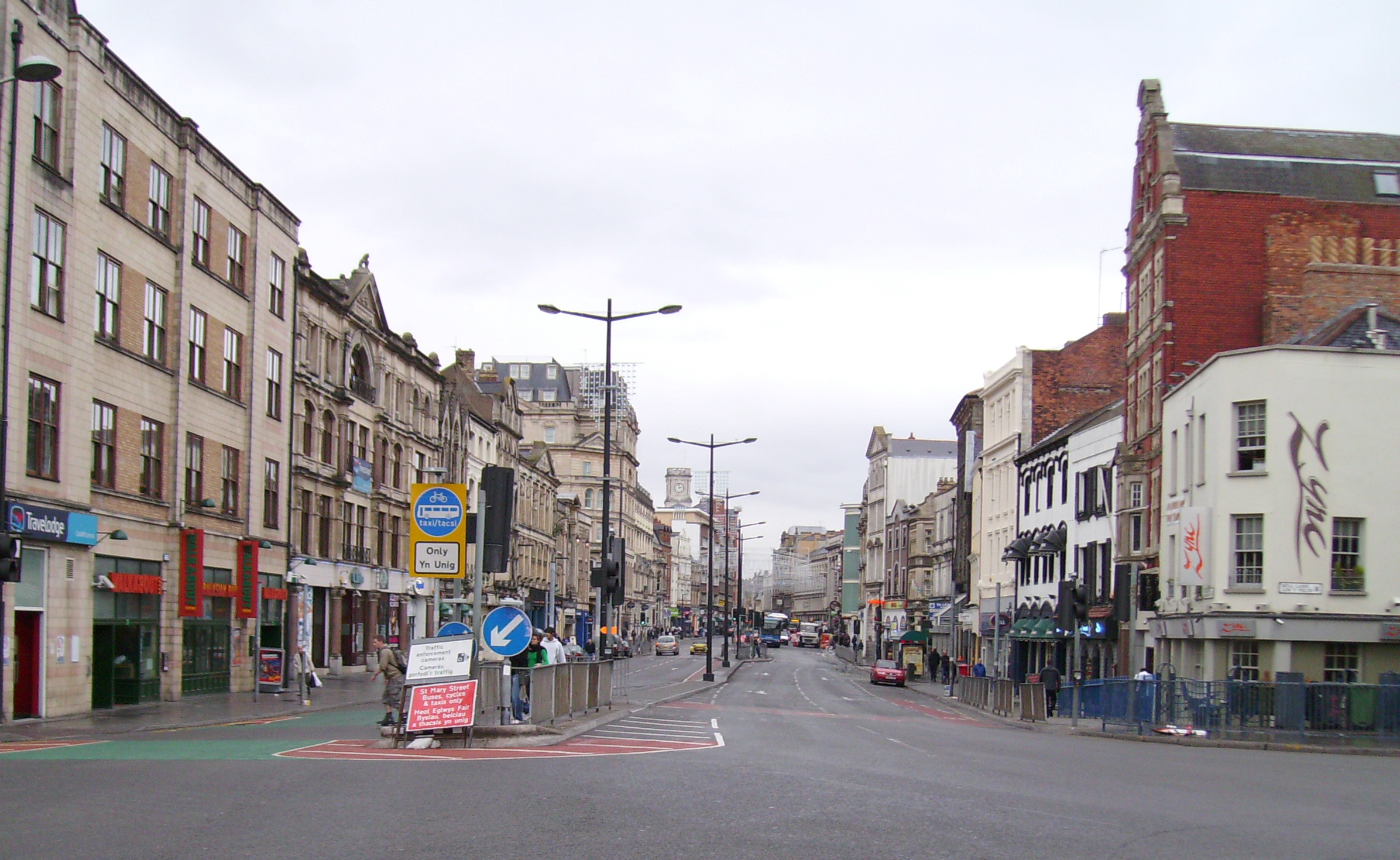 St. Mary Street, Cardiff, Wales